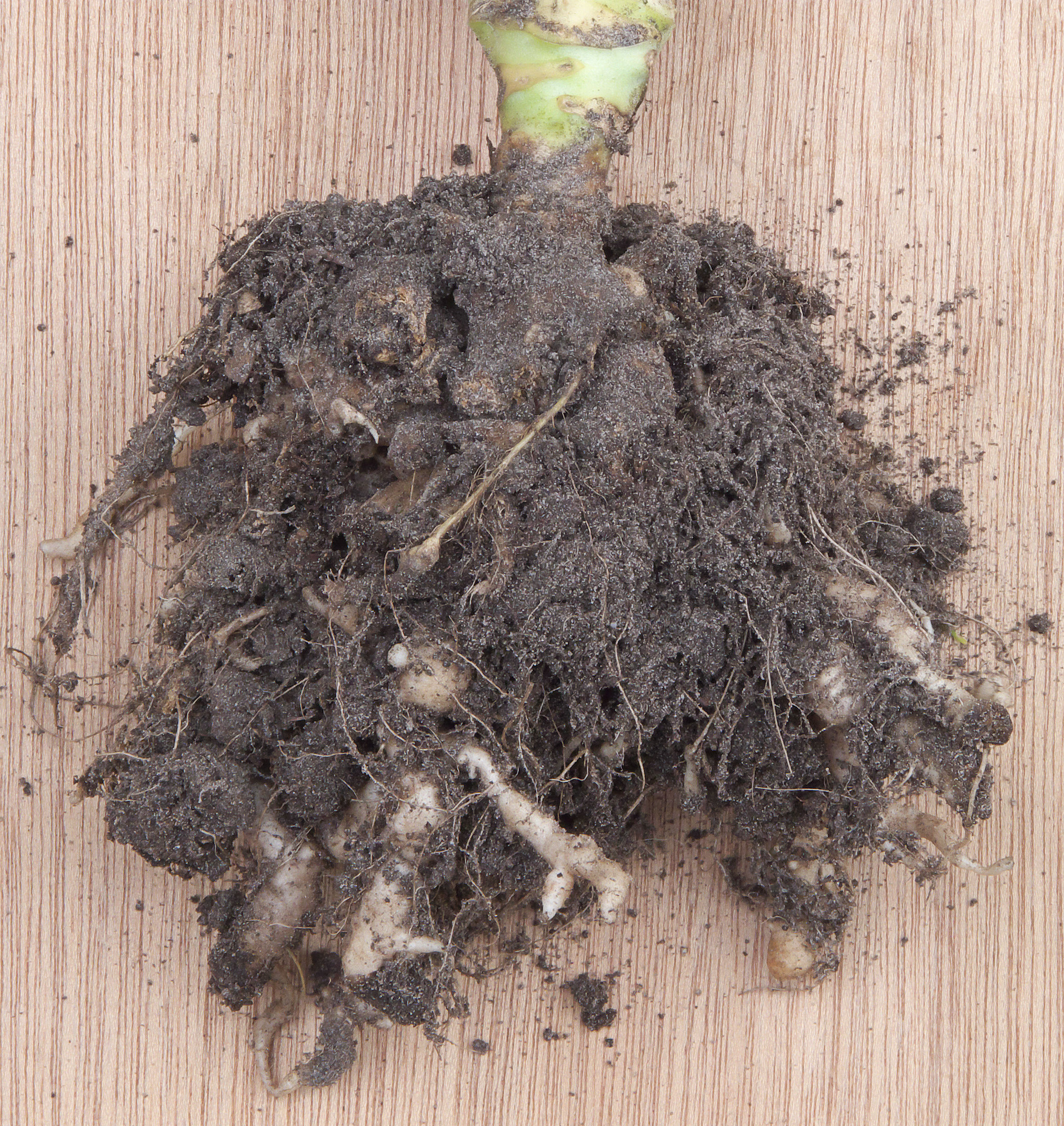 Plasmodiophora brassicae on cauliflower